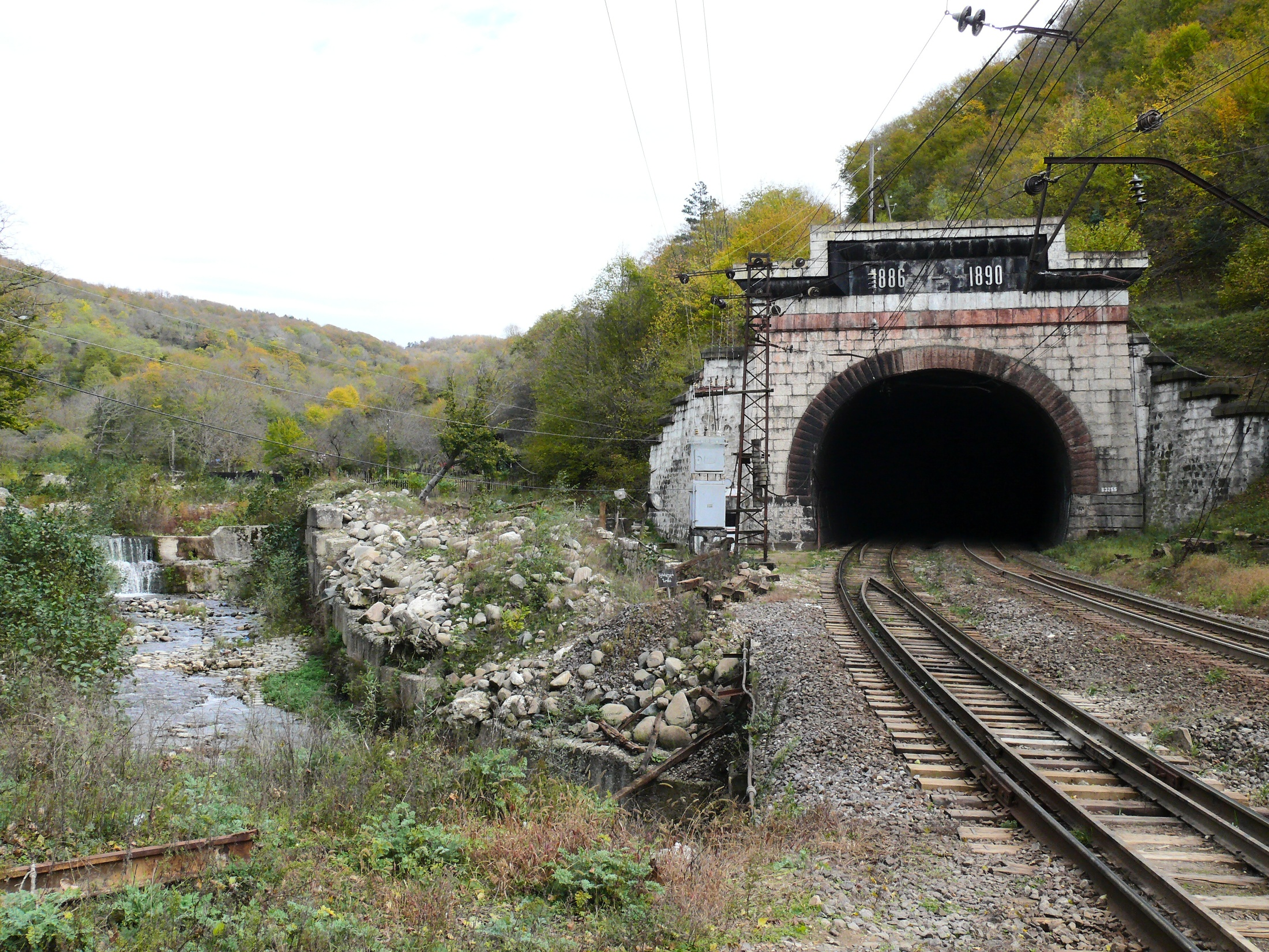 Railway tunnel under Surami pass near the village Tsipa, Chkherimela valley, Georgia 2014